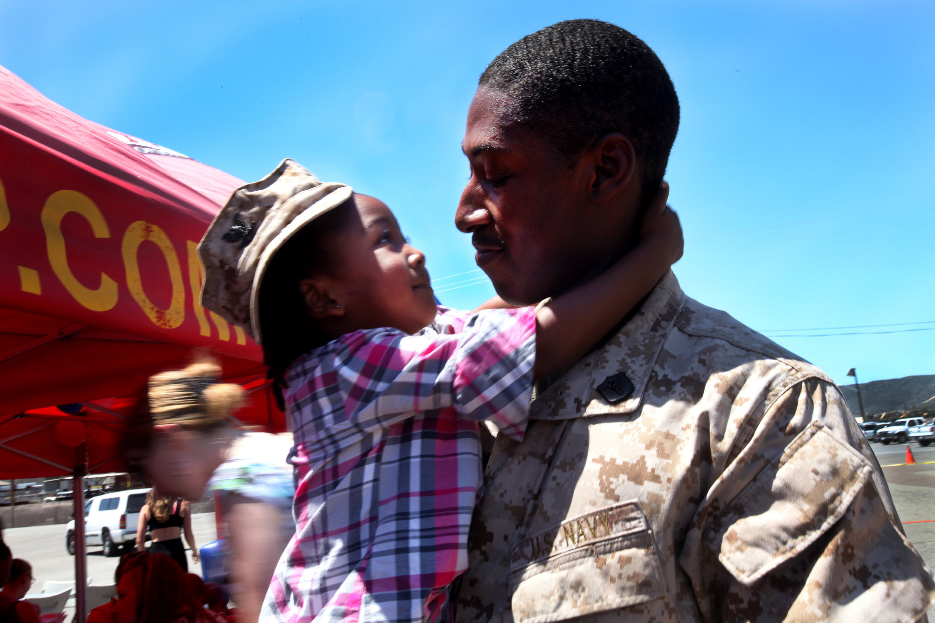 Petty Officer 3rd Class Roderick Shanks, a corpsman with Combat Logistics Battalion 15, 1st Marine Logistics Group, holds his daughter during CLB-15’s homecoming aboard Camp Pendleton, Calif., May 13, 2013. Several Marines and sailors returned from an eight-month deployment with the 15th Marine Expeditionary Unit. (U.S. Marine Corps photo by Cpl. Laura Gauna/Released)